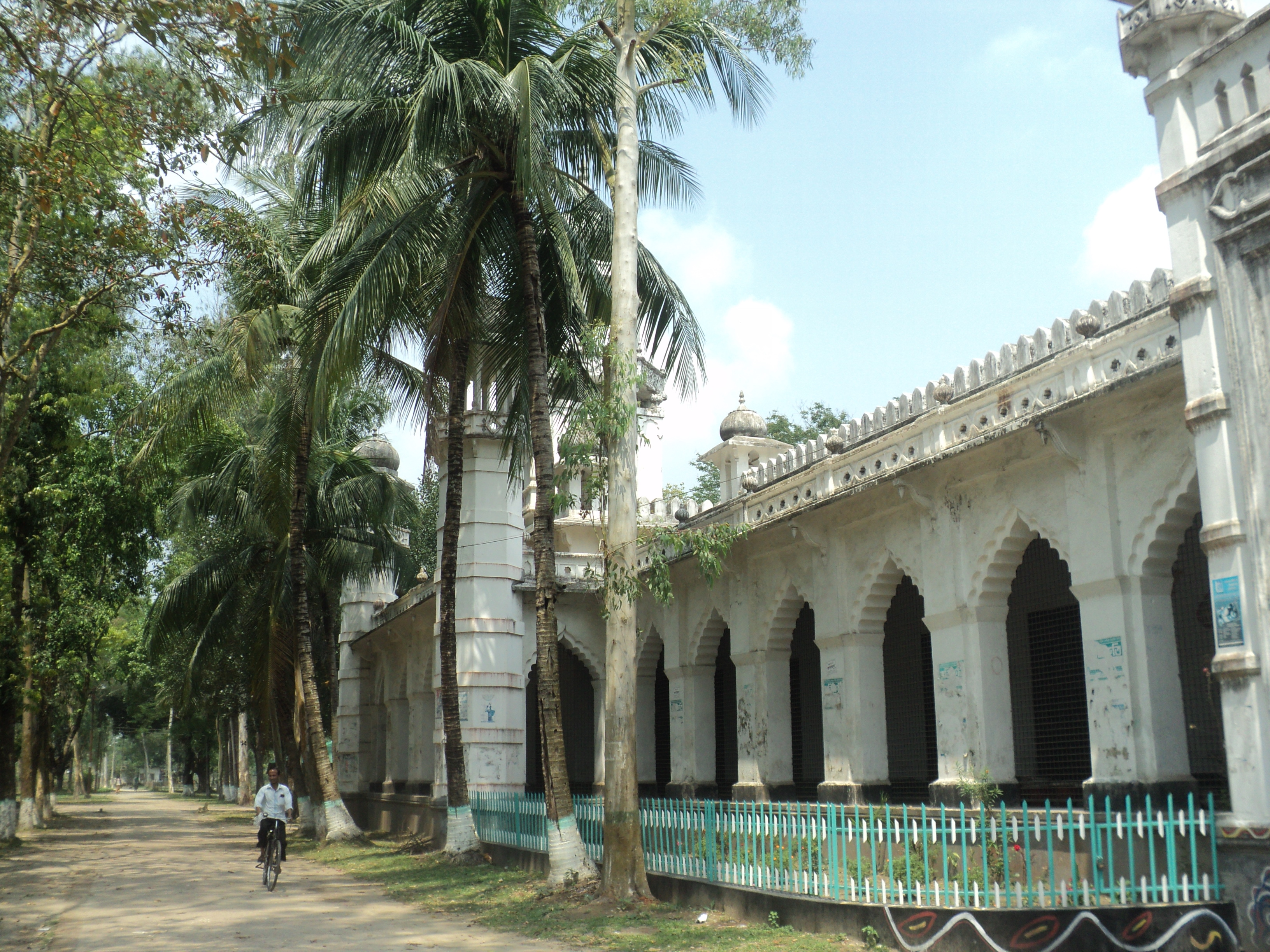 Carmichael College